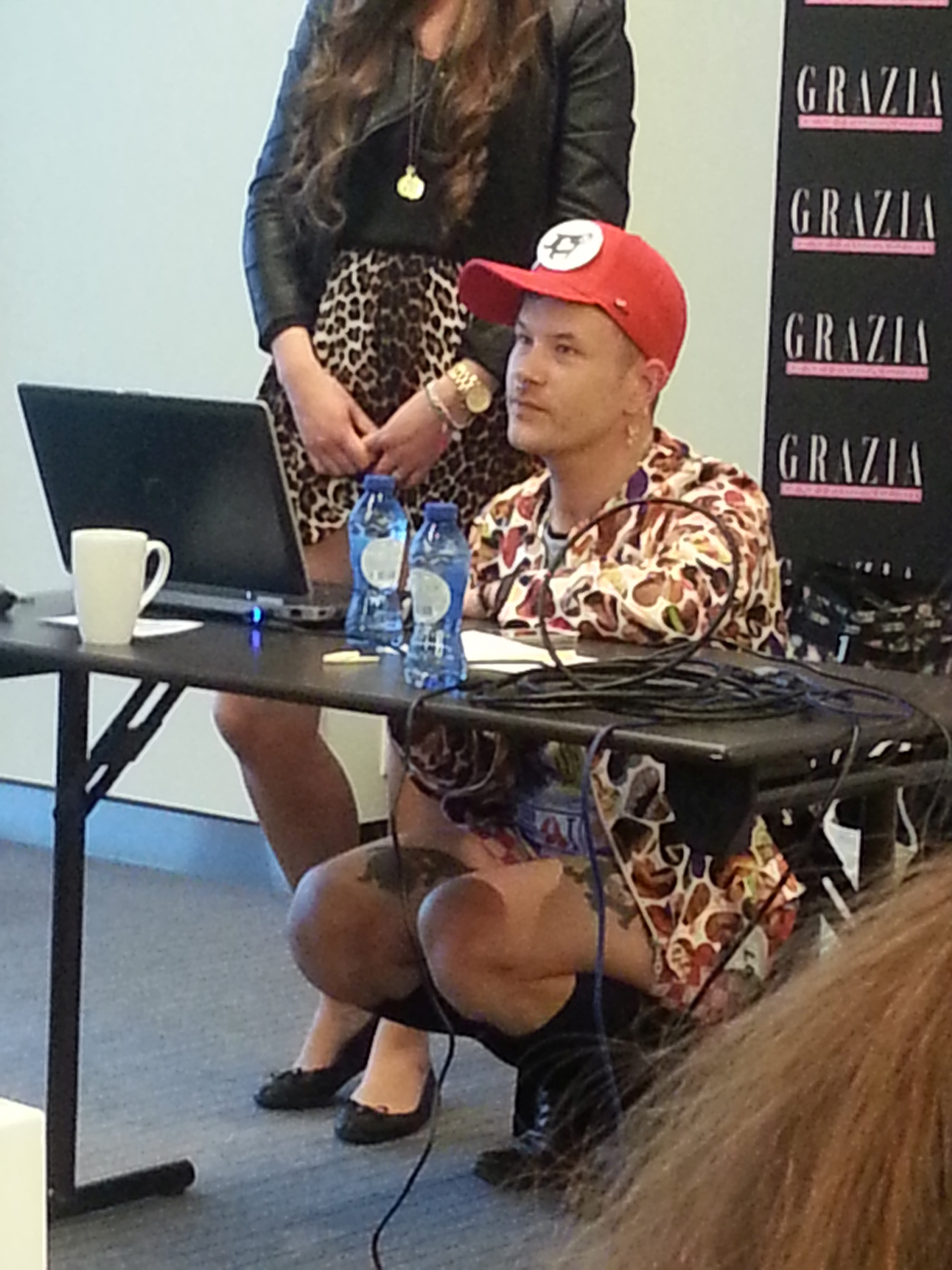 Bas Kosters during the Grazia Fashion Masterclass 17th of May 2014 in Amsterdam